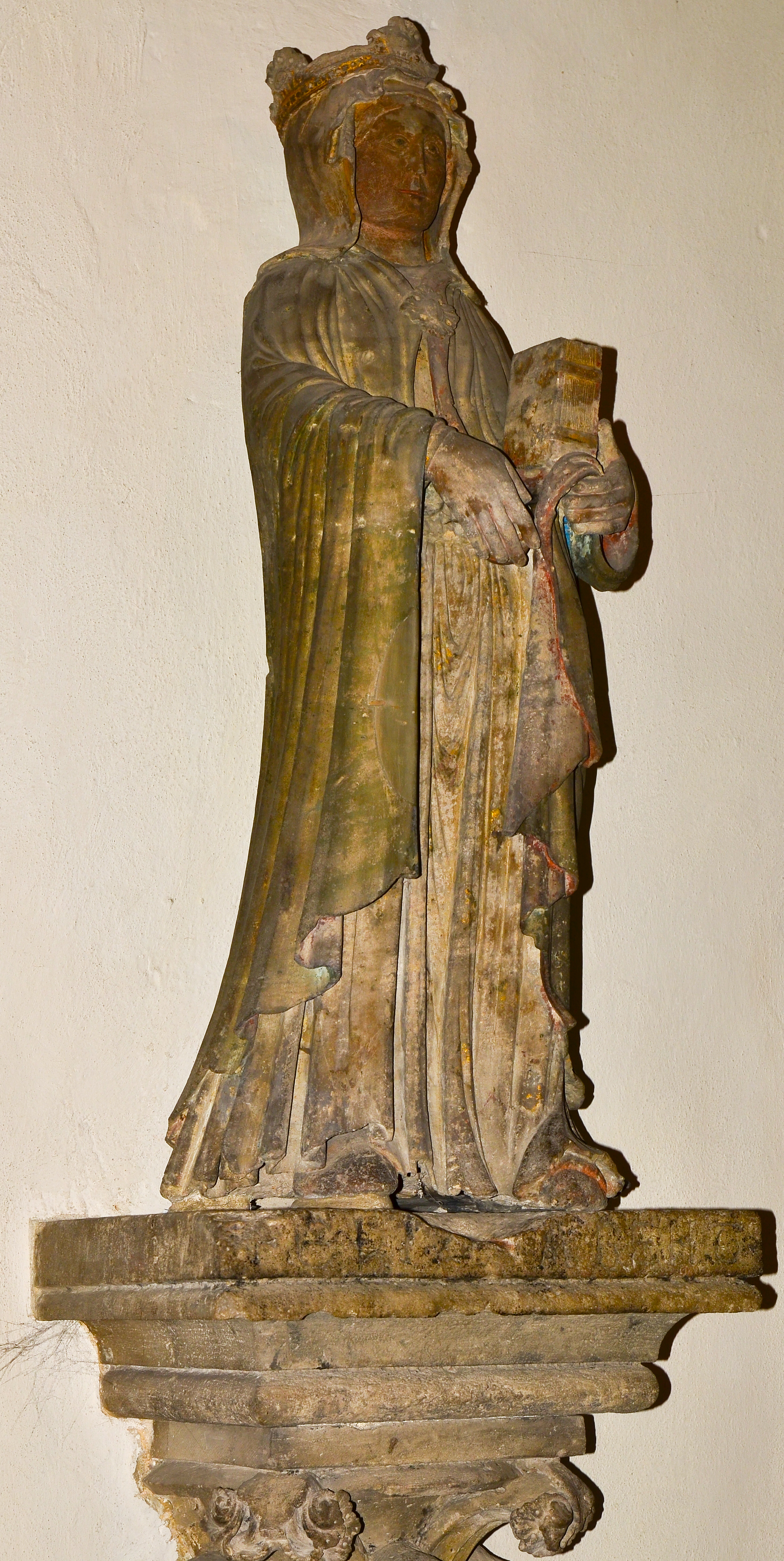 Elisabeth-Statue im Naumburger Dom